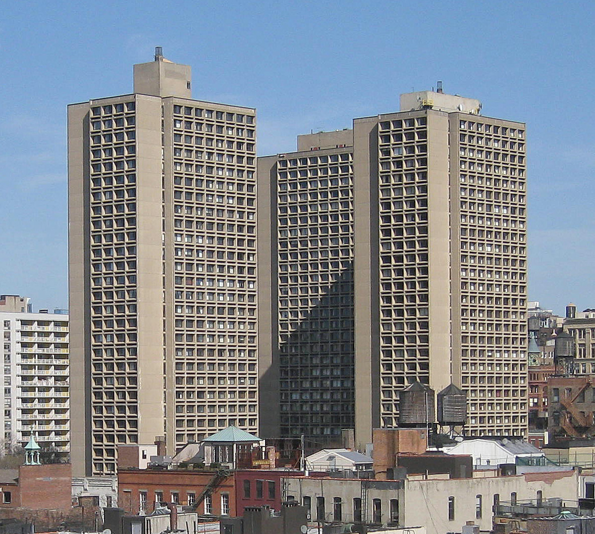 View of NYU's The University Plaza.